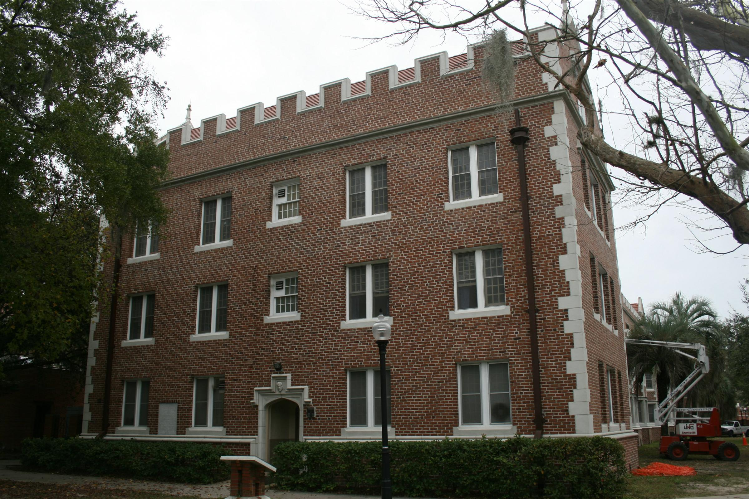 On 5 January 2007 I took pictures of most of the buildings on the UF campus that are designated National Historic Places. The only two buildings I didn't take pictures of are the Old WRUF station building and the Women's Gym. The day was overcast and about to rain so the skies aren't so great, but I think they get the job done. If I get any better shots of these buildings I'll upload them in place of the older ones. This message will be the same on all the images. --Douglas Whitaker 06:01, 6 January 2007 (UTC)